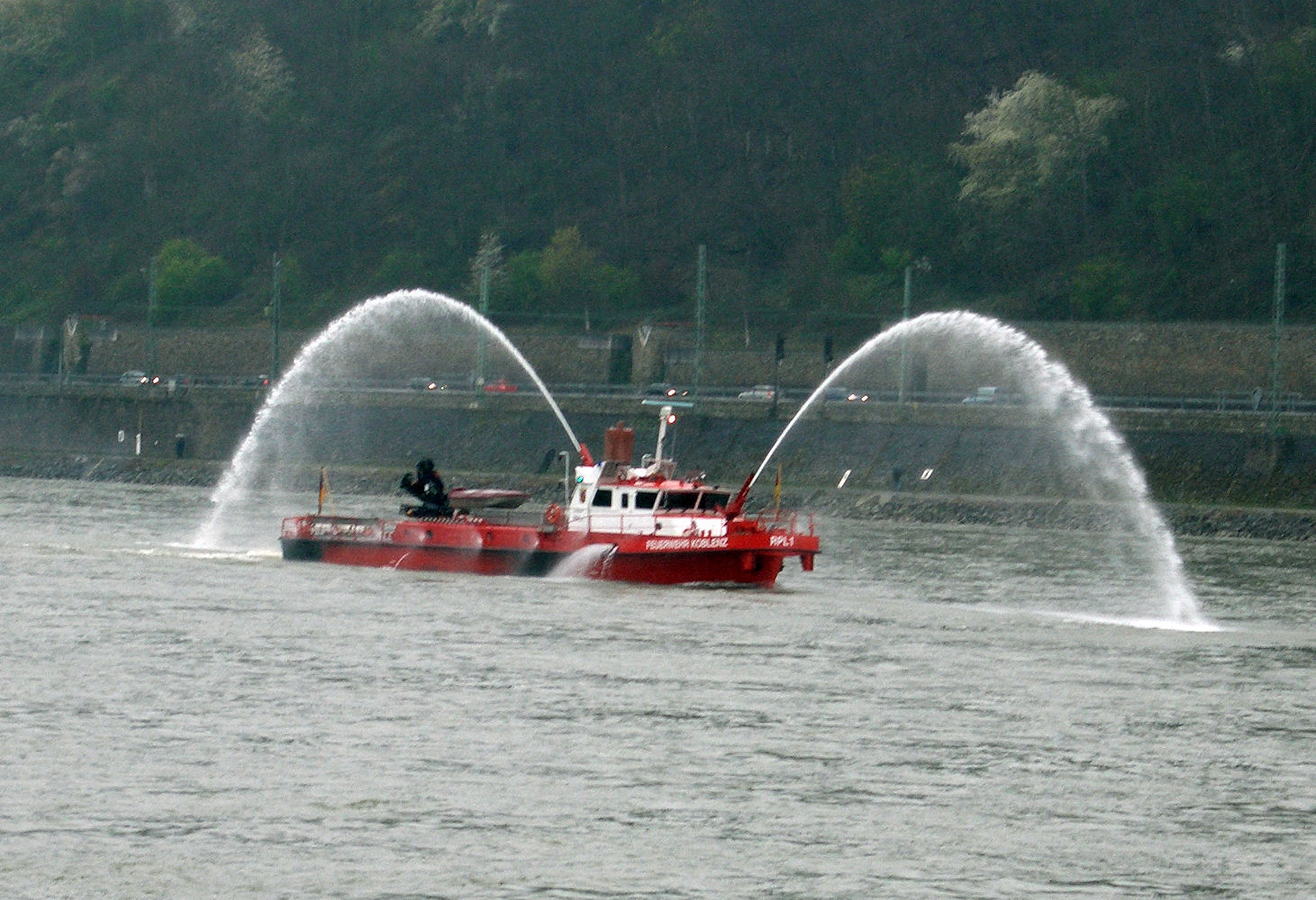 Fireboat „Rheinland-Pfalz I“ of the fire brigade Koblenz